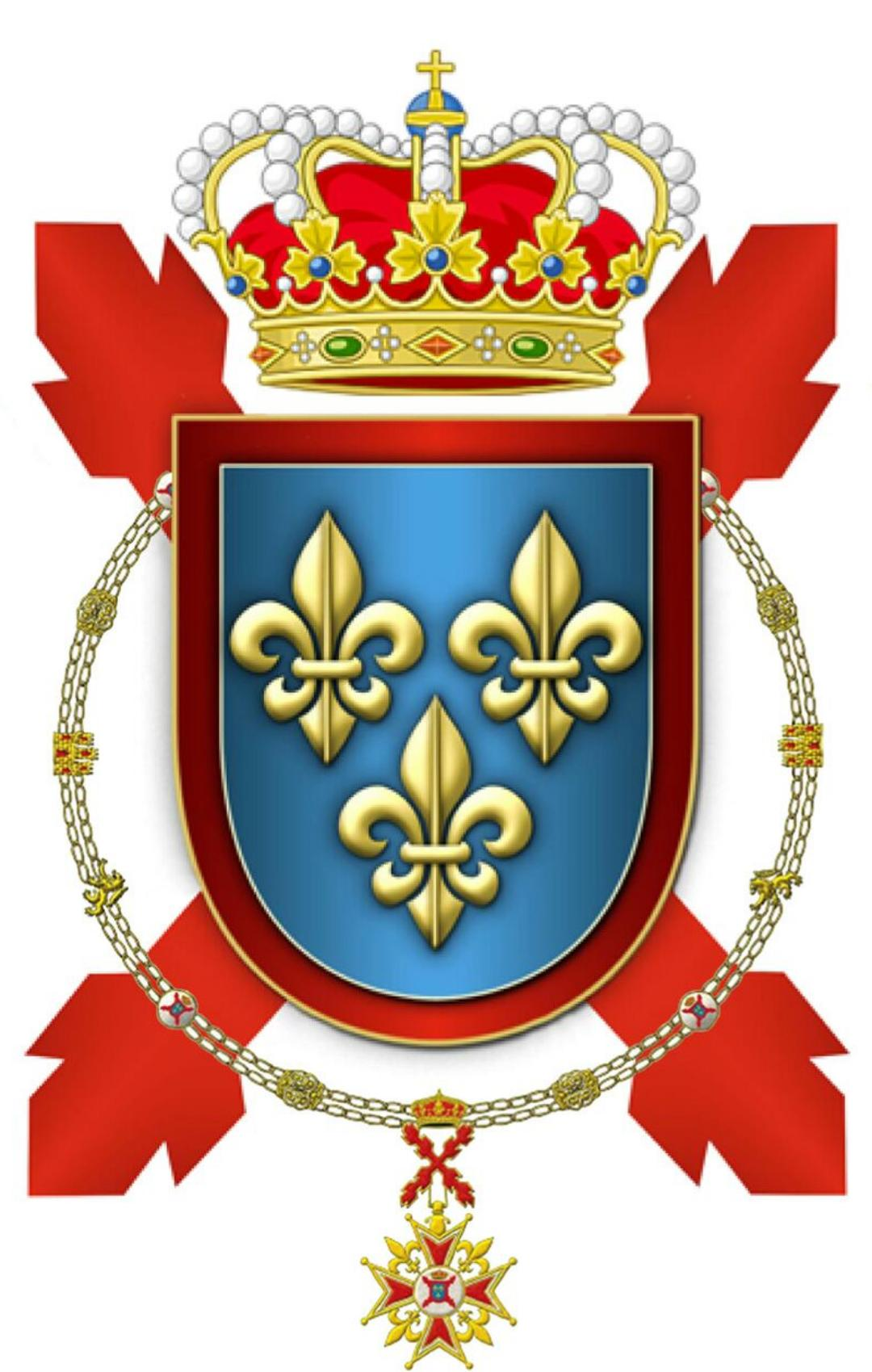 Hermandad Nacional Monárquica de España